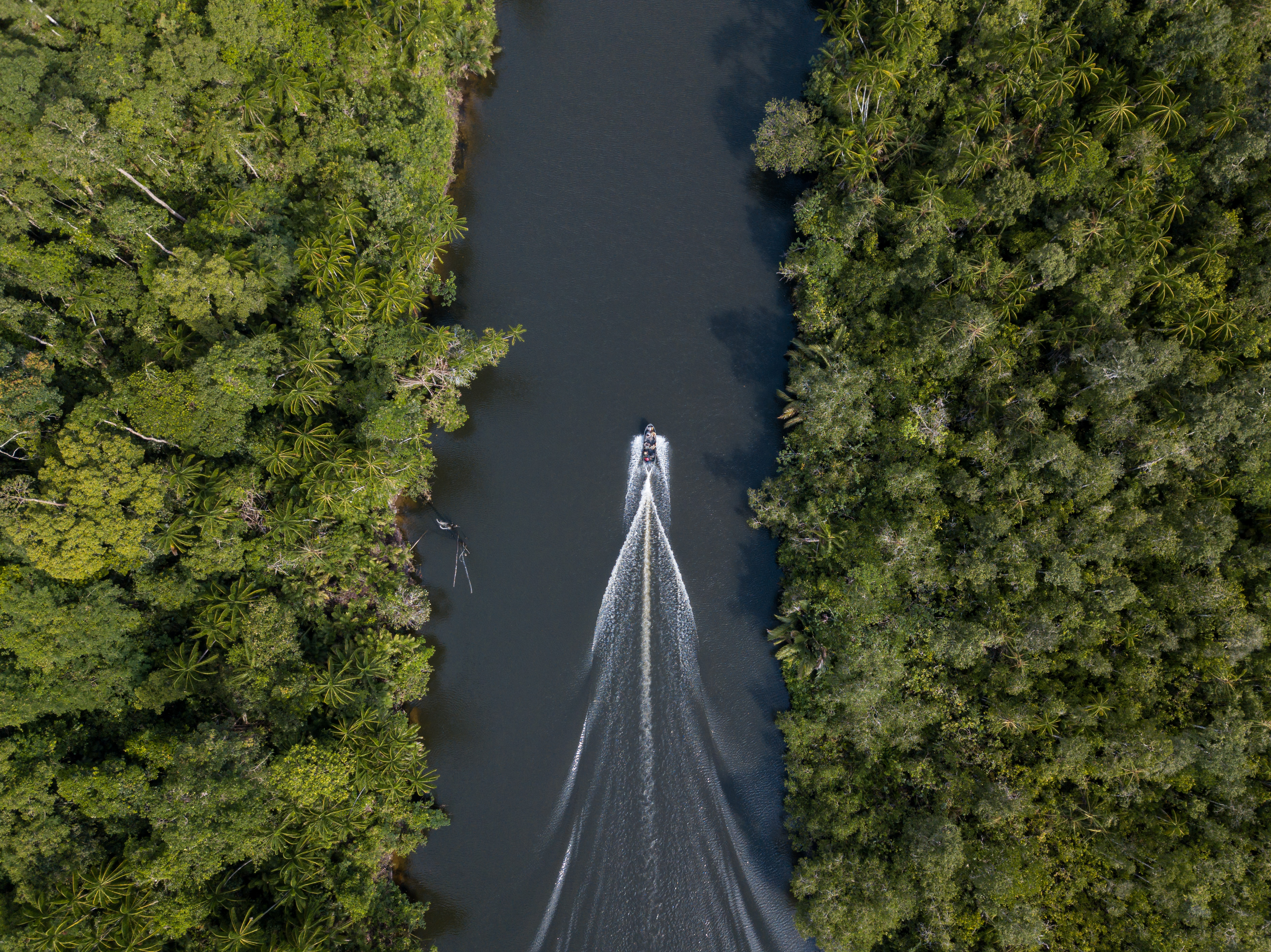 Wildlife Alliance rangers patrol the Cardamom Rainforest 24/7 365 days of the year, making it Asia's best protected forest.